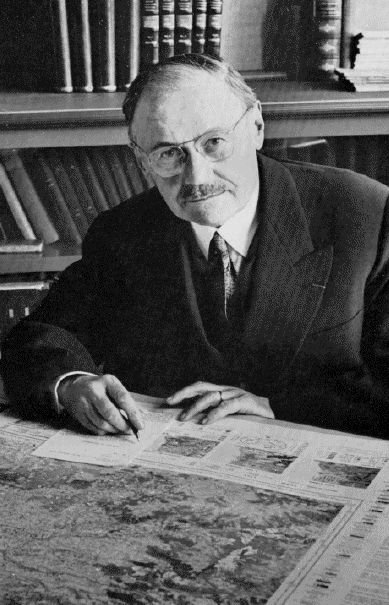 Henri Gaussen – French Botanist (1891 - 1981) Source: Library and Documentation Service Museum of Toulouse